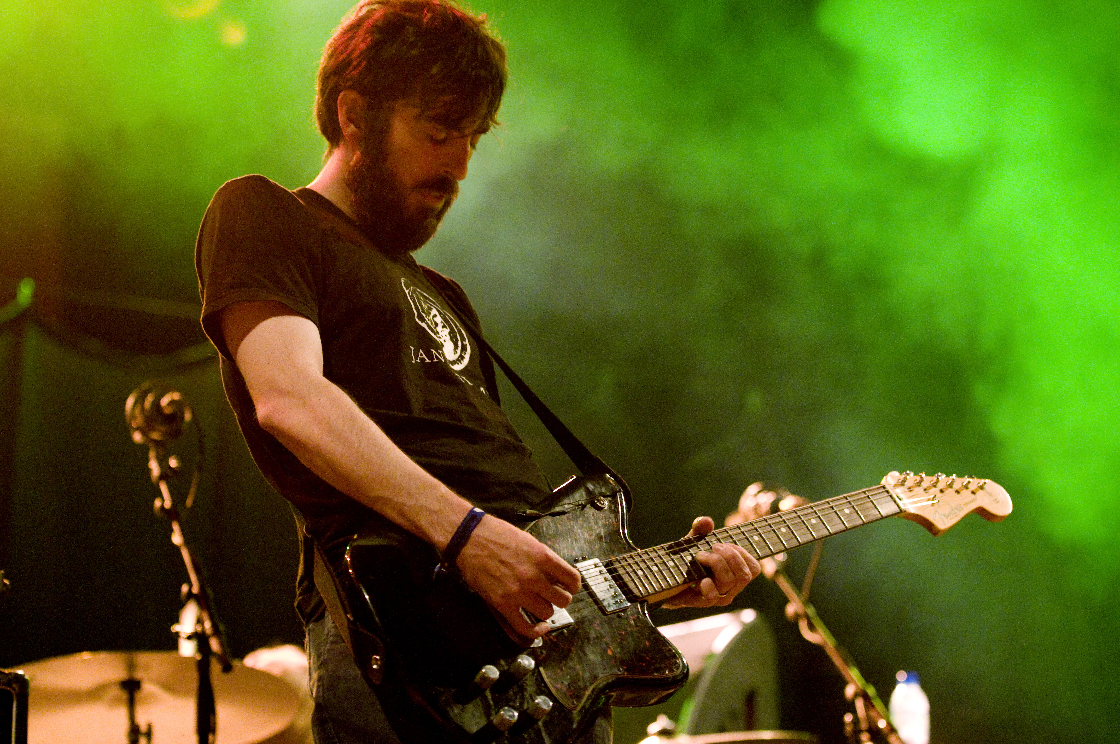 Explosions in the Sky